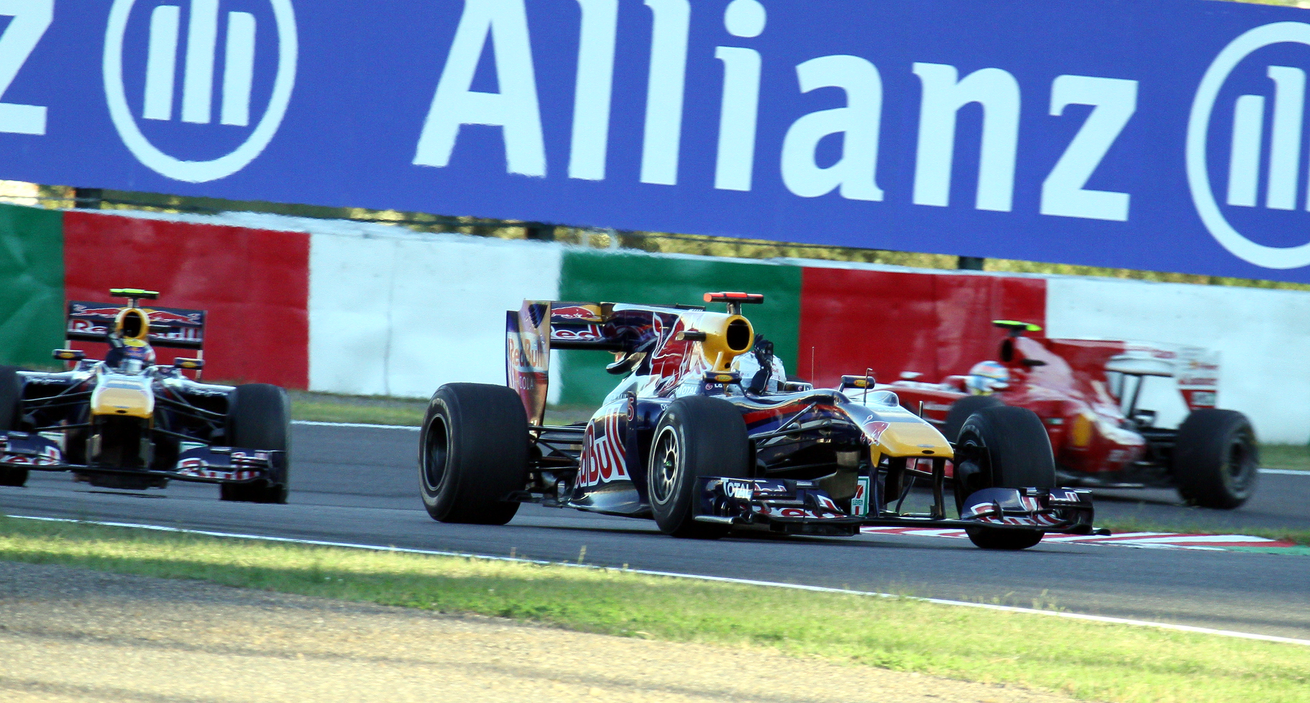 Formula One 2010 Rd.16 Japanese GP: the podium finishers of the race; Sebastian Vettel (Red Bull), Mark Webber (Red Bull), and Fernando Alonso (Scuderia Ferrari) after the checkered flag.